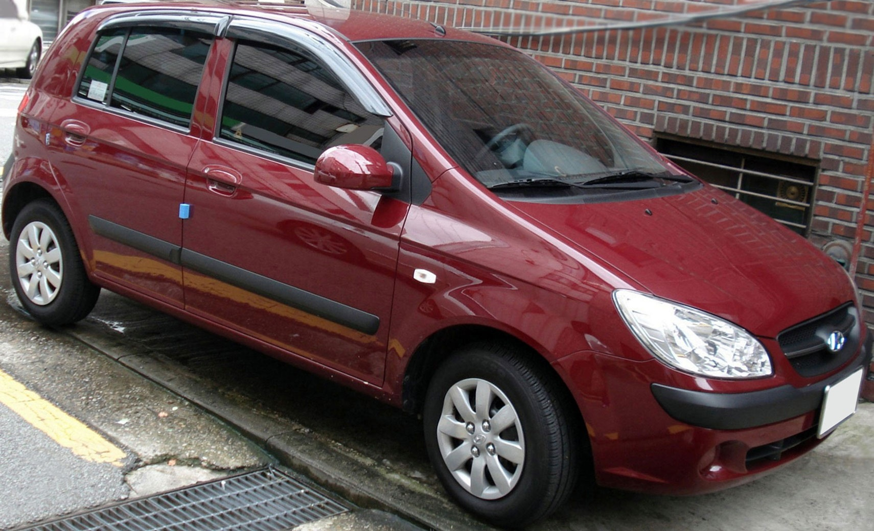 Hyundai New Click